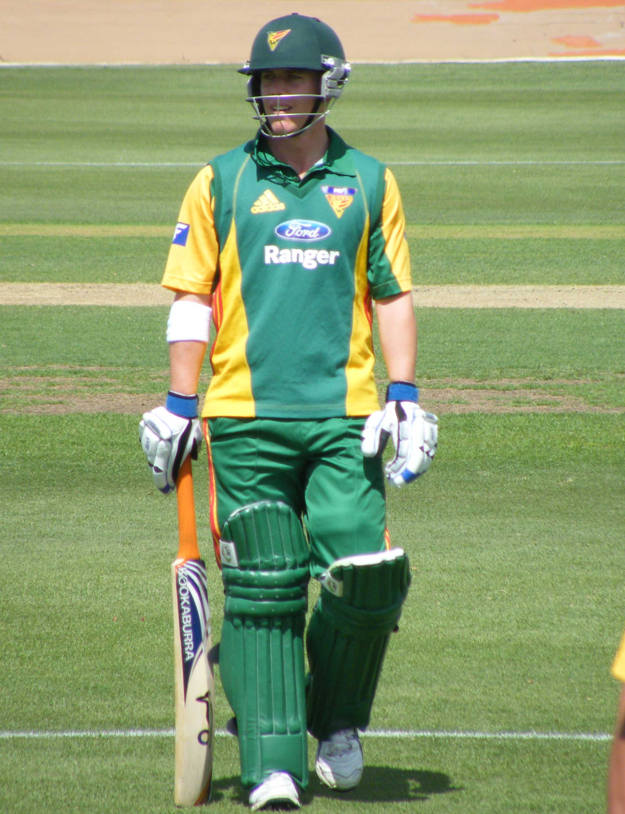 Tasmanian Cricketer Xavier Doherty - NSW v Tasmania, Hurstville Oval. Saturday 29 November 2008.